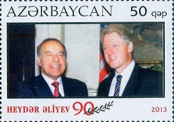 The 90th Ann. of National Leader Heydar Aliyev.